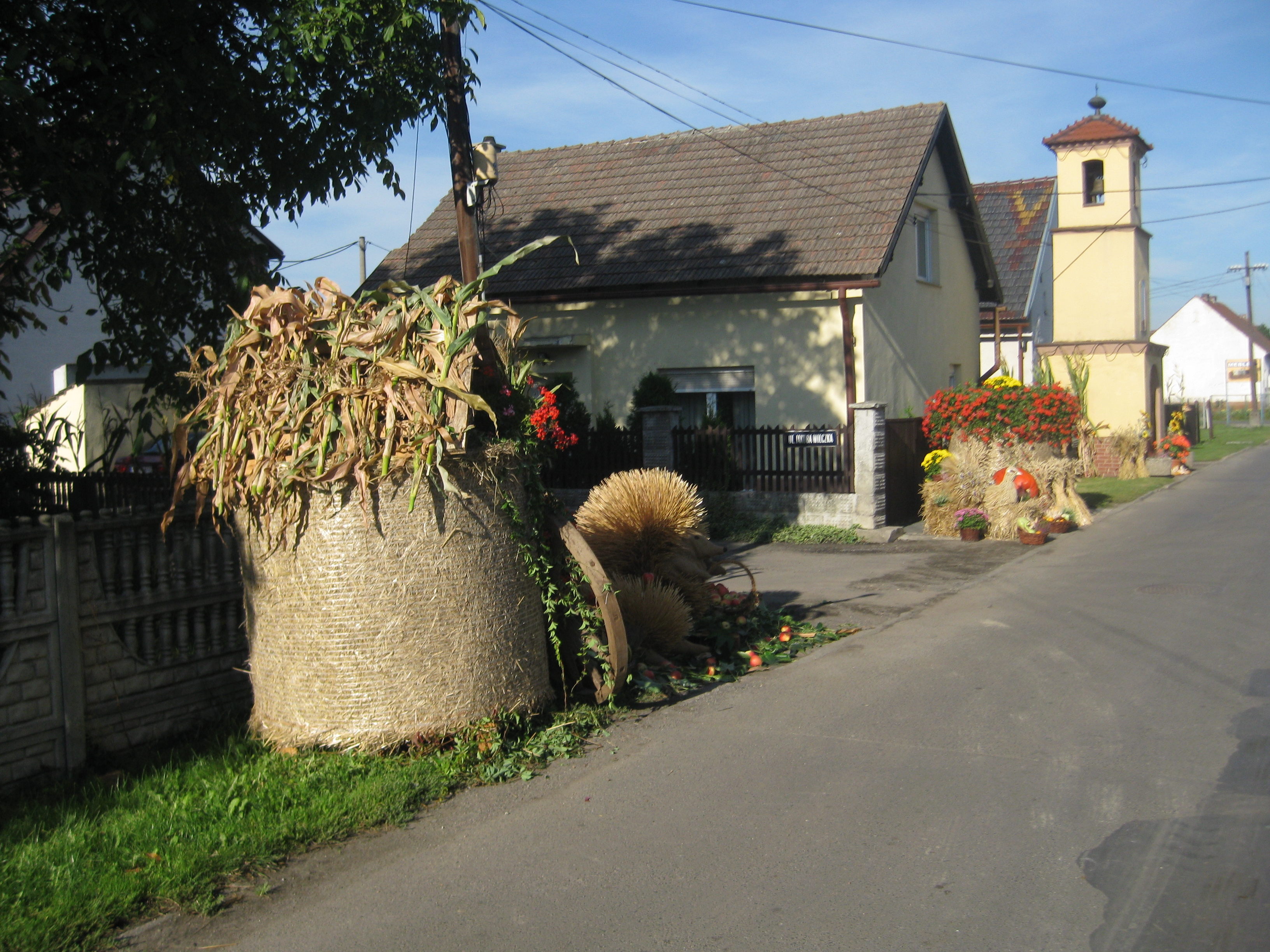 Wójtowa Wieś - Erntedankfest (Harvest festival) decoration